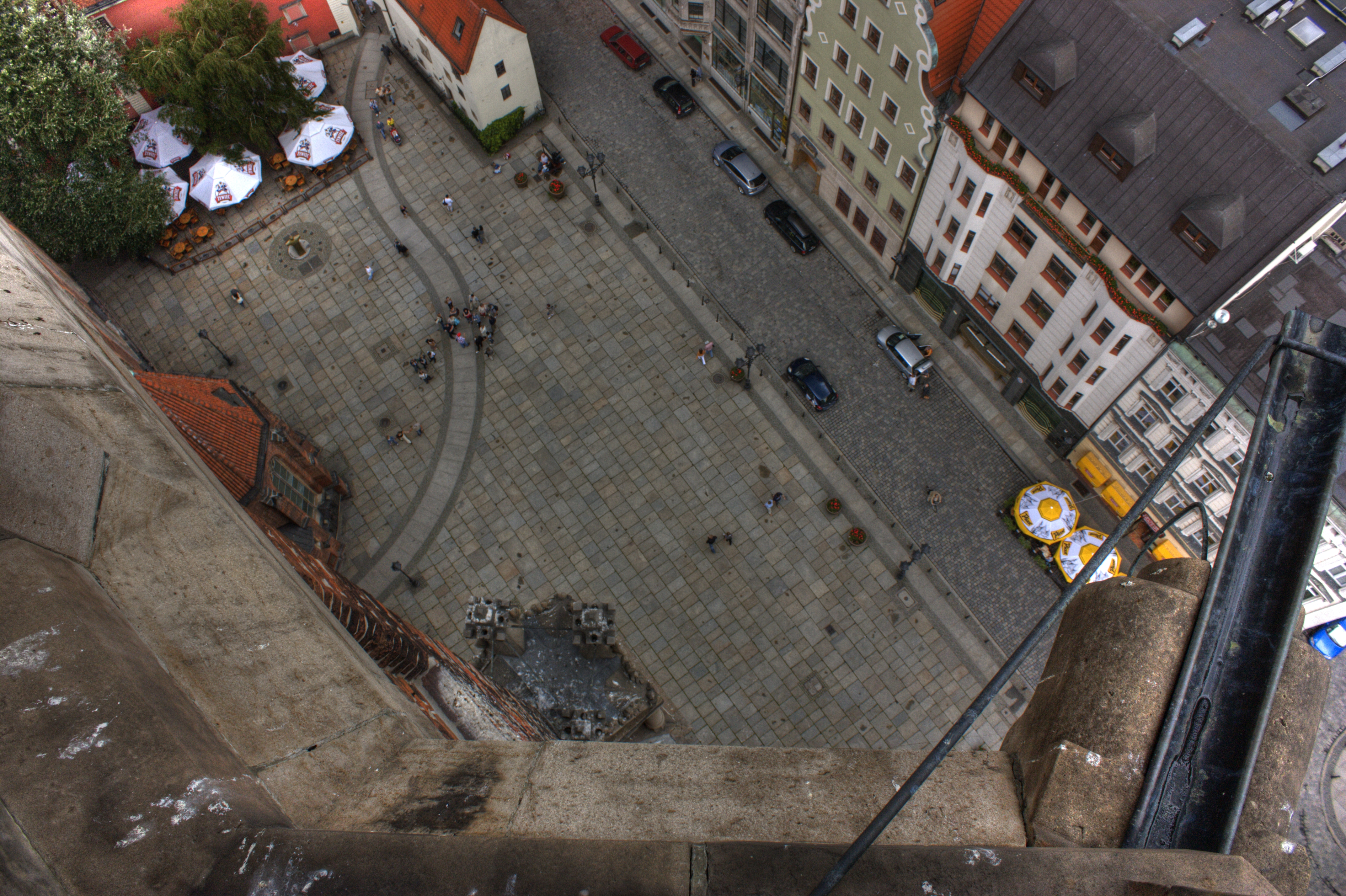 View of Wrocław, Poland from the campanile of St. Elizabeth church at the center of the city... Looking Wroclaw from above...